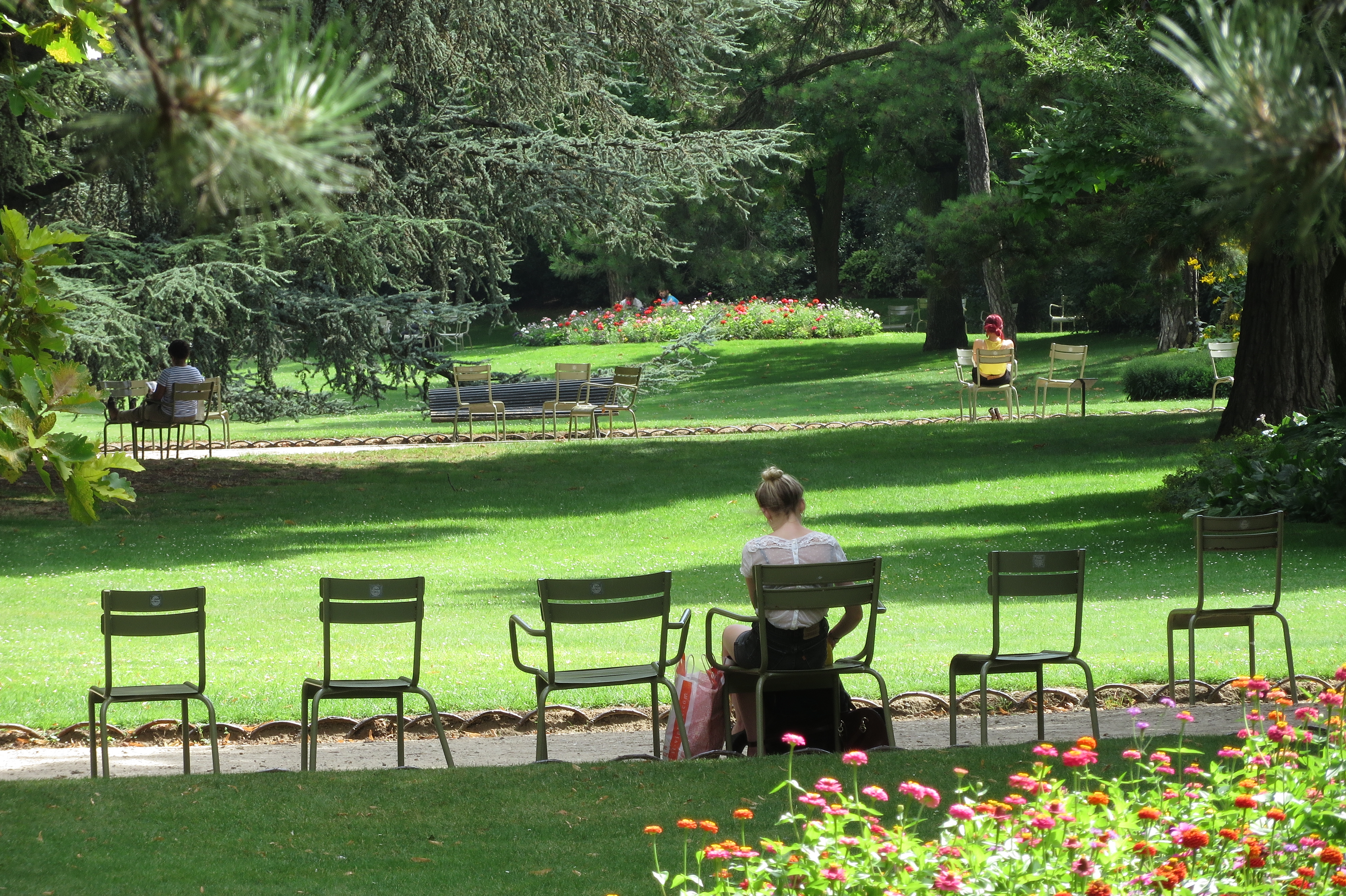 Jardin du Luxembourg, Paris